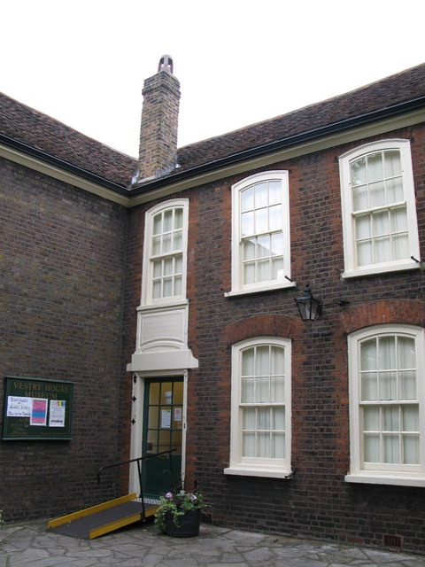 Courtyard of the Vestry House Museum. See 900038 and 900062.